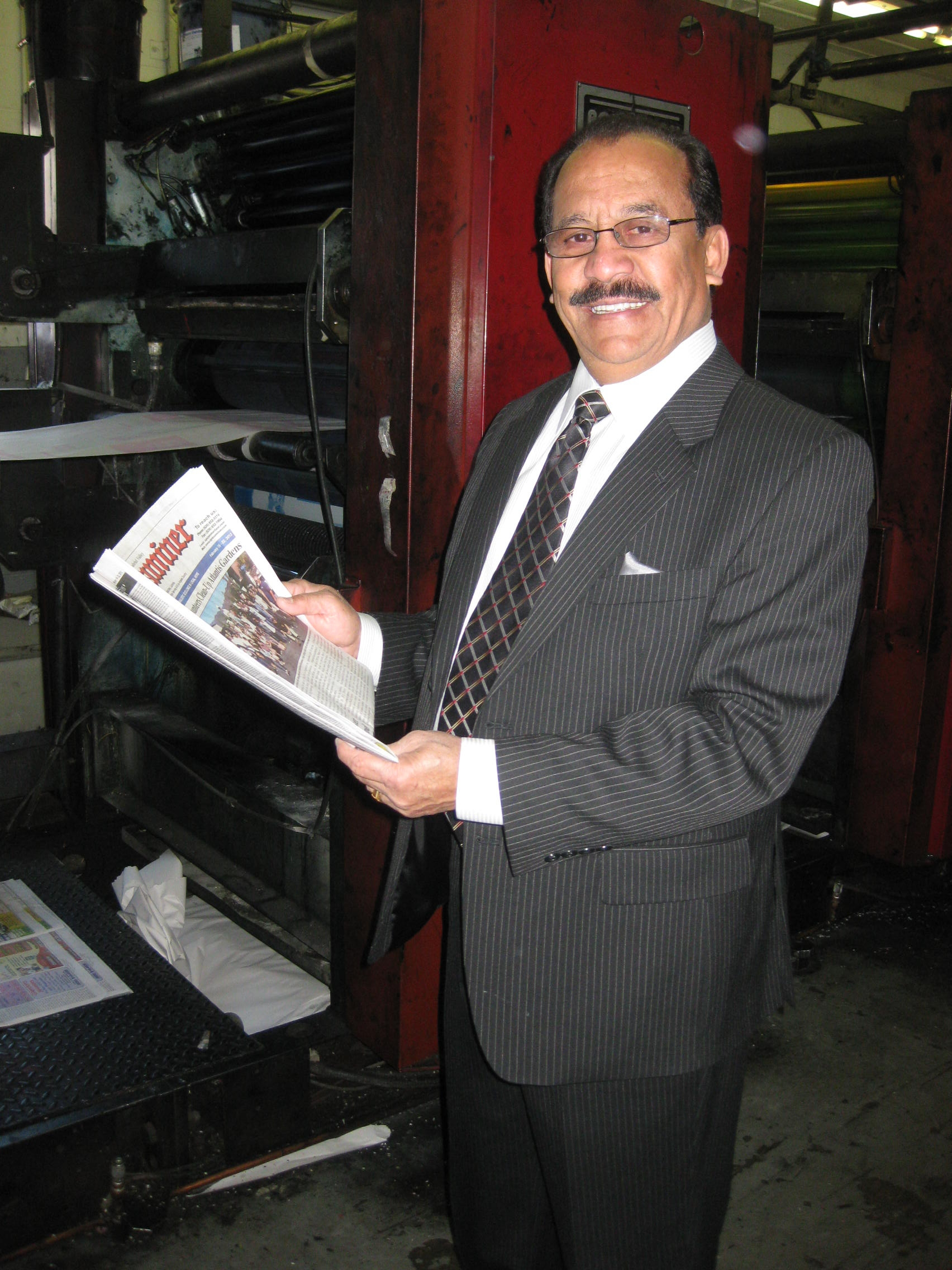 Jayam Rutnam is holding San Gabriel Valley Examiner, a weekly publication from Glendora, California at the printing press of the publication.